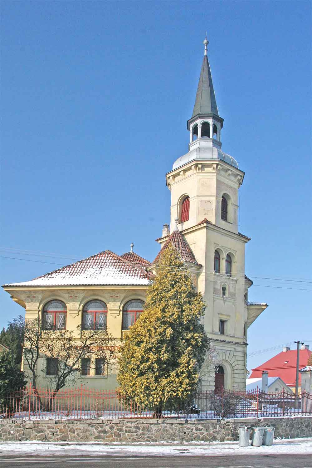 Protestant church in Přelouč, Czech Republic by Rudolf Kříženecký